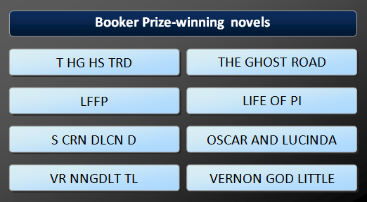 Only Connect Round 4